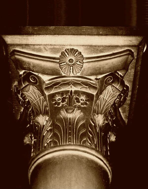 Church of Sant'Alessandro, Lucca. Medieval Corinthianizing capital, rare philological revival of Roman capitals of I century A.D.